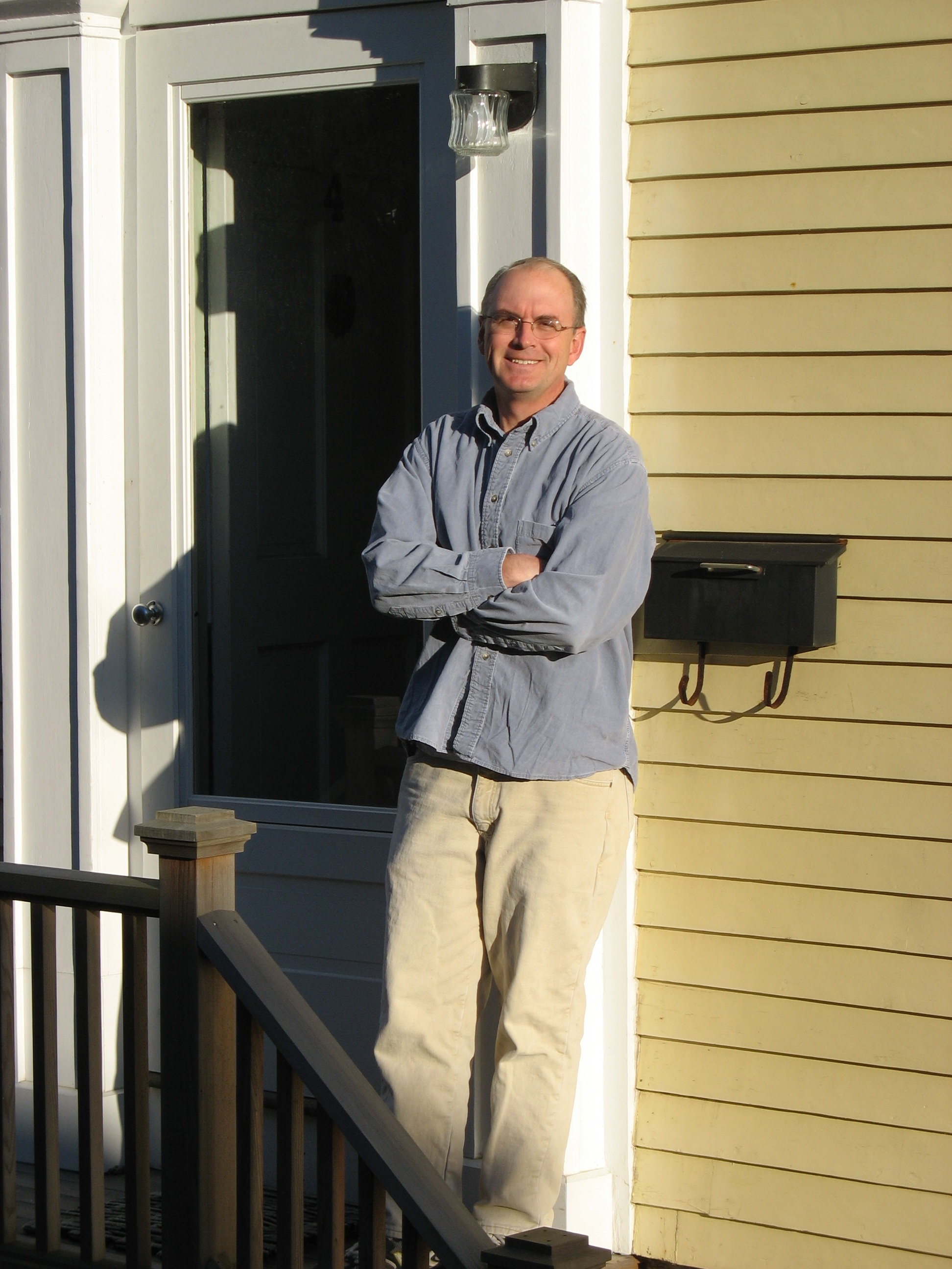 2010 photo of Nathaniel Philbrick